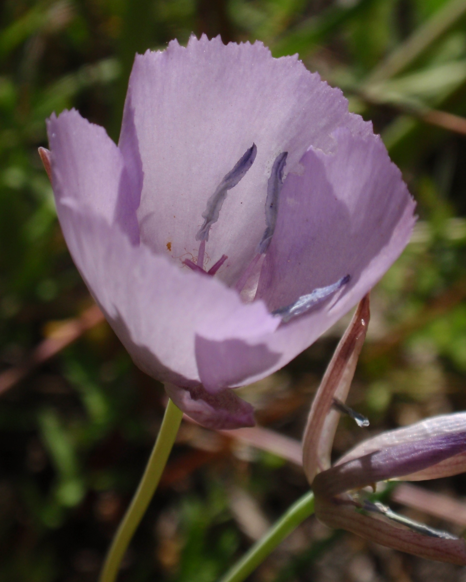 Calochortus nudus in Trinity Alps, California, USA.